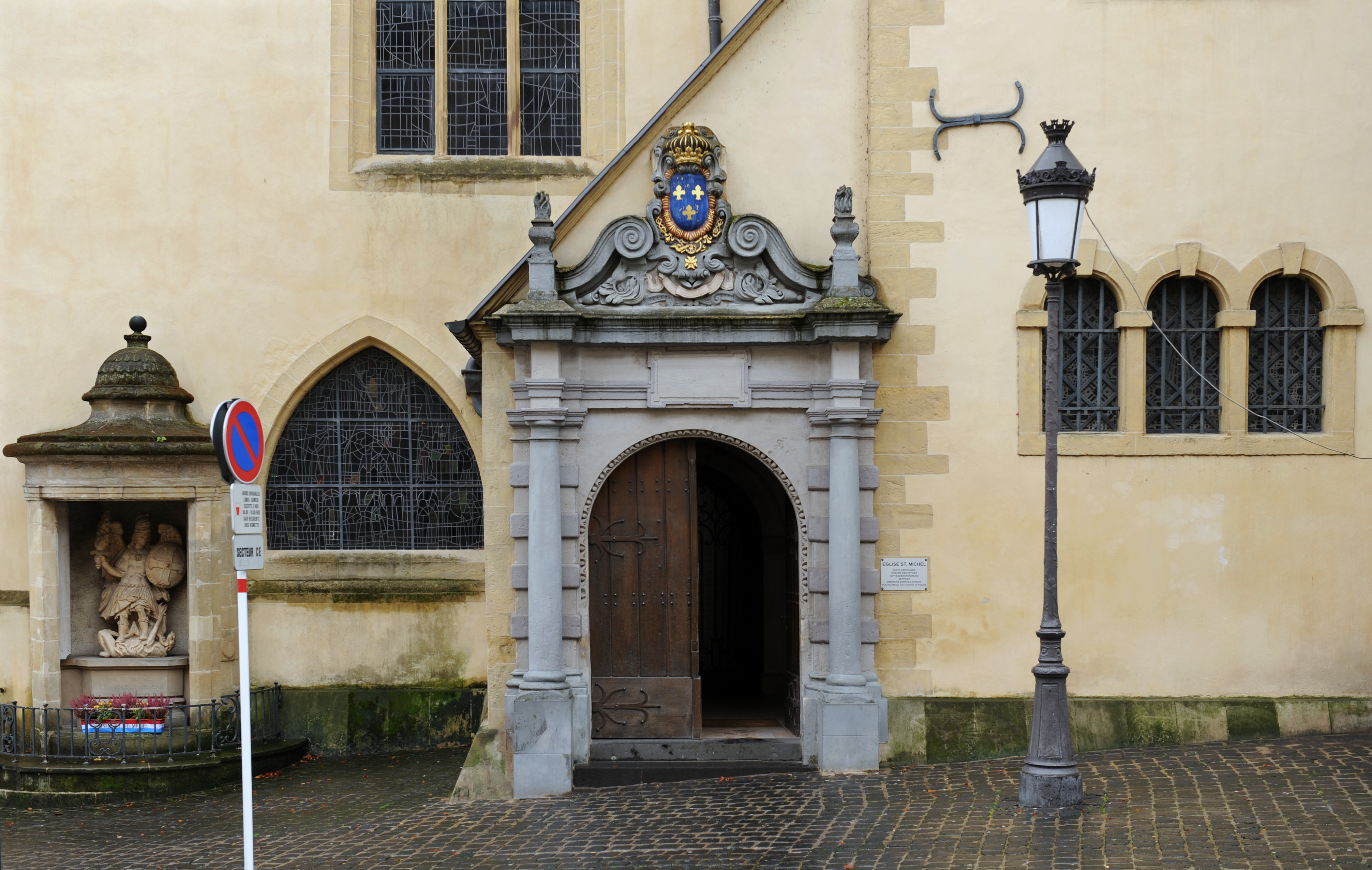 Luxembourg City, église Saint-Michel. Portal erected in 1687, with the coat of arms of Louis XIV to commemorate the stay of the Sun King in Luxembourg City in that year. At the left: St Michael's victory over the Devil